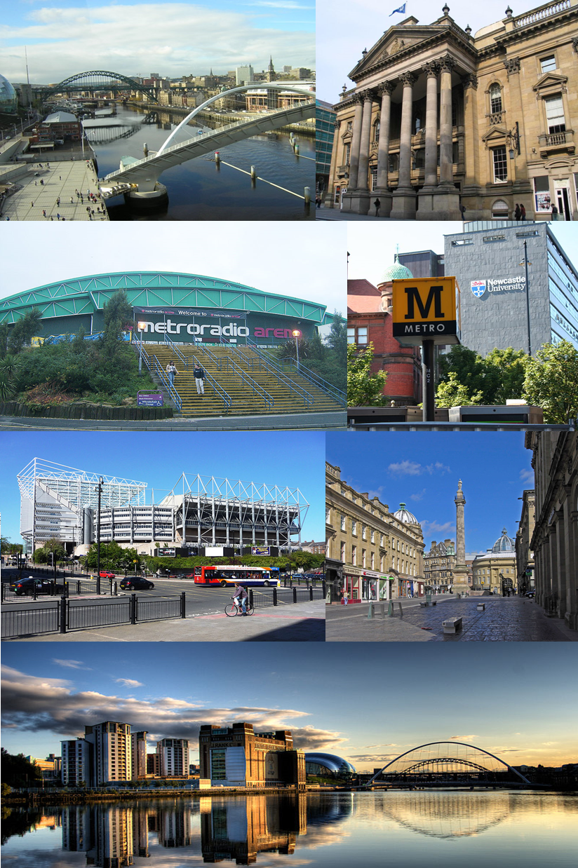 A montage of the city of Newcastle upon Tyne in England, consisting of the following files (clockwise from top-left): File:Bridges opening up - .uk - 178375.jpg File:Theatre Royal, Newcastle upon Tyne.jpg File:Newcastle Metro sign.jpg File:Newcastle greys monument.jpg File:Newcastle Quayside with bridges.jpg File:St James Park Newcastle south west corner.jpg File:Metroradio Arena, Newcastle.jpg